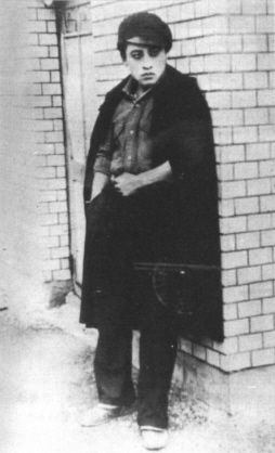 Description: Promotional poster for the Na Woon-gyu (1902 – 1937) film, Punguna (1926). The copyright of this poster once belonged to Na Woon-gyu who was the director, actor, screenwriter, and producer of the film and owner of Na Woon-gyu production. However, 50 years after his death, the poster is now public domain in South Korea and other countries to which the similar copyright would apply. Source Derived from a digital capture (photo/scan) of the image (creator of this digital version is irrelevant as the copyright in all equivalent images is still held by the same party). Copyright held by the film company or the artist. Claimed as fair use regardless.